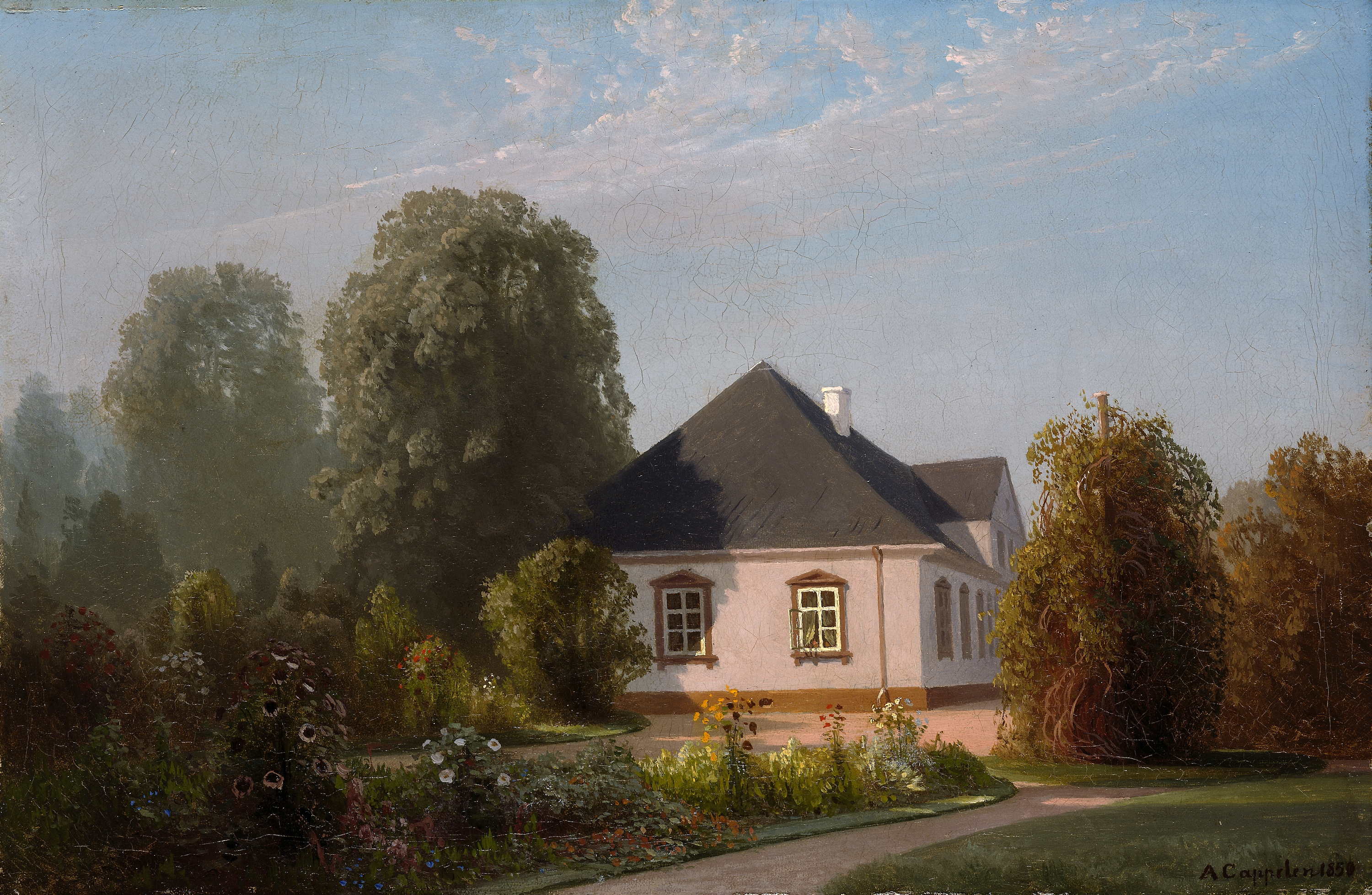 The Norwegian painter August Cappelen's family home in Ulefoss, Norway